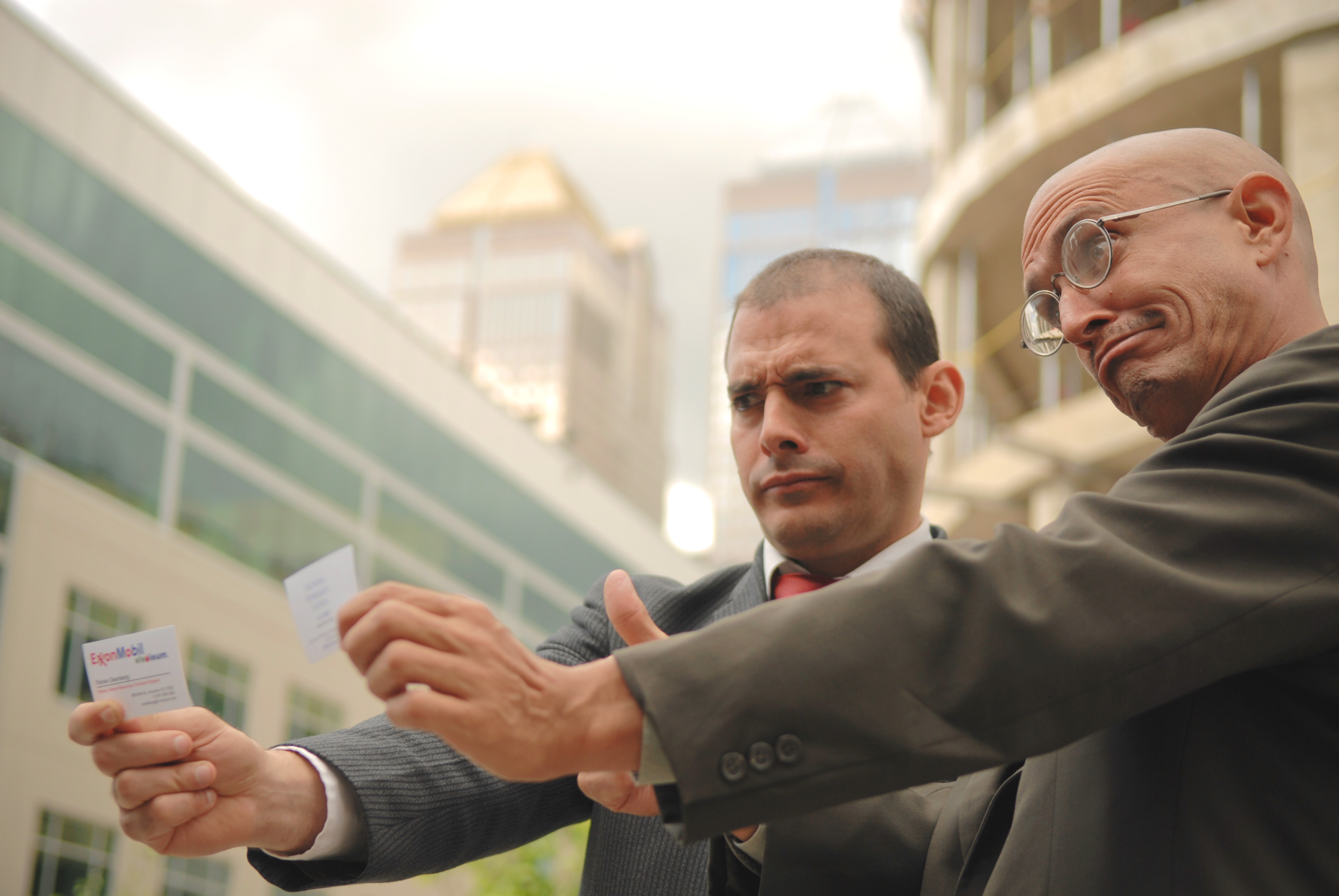 The two leading members of "The Yes Men", known as "Andy Bichlbaum" and "Mike Bonanno" pose as Exxon oil executives shortly after making the announcement of a human-flesh-derived fuel called "Vivoleum" at the Oil and Gas Expo (GO-Expo 2007) in Calgary, Alberta.